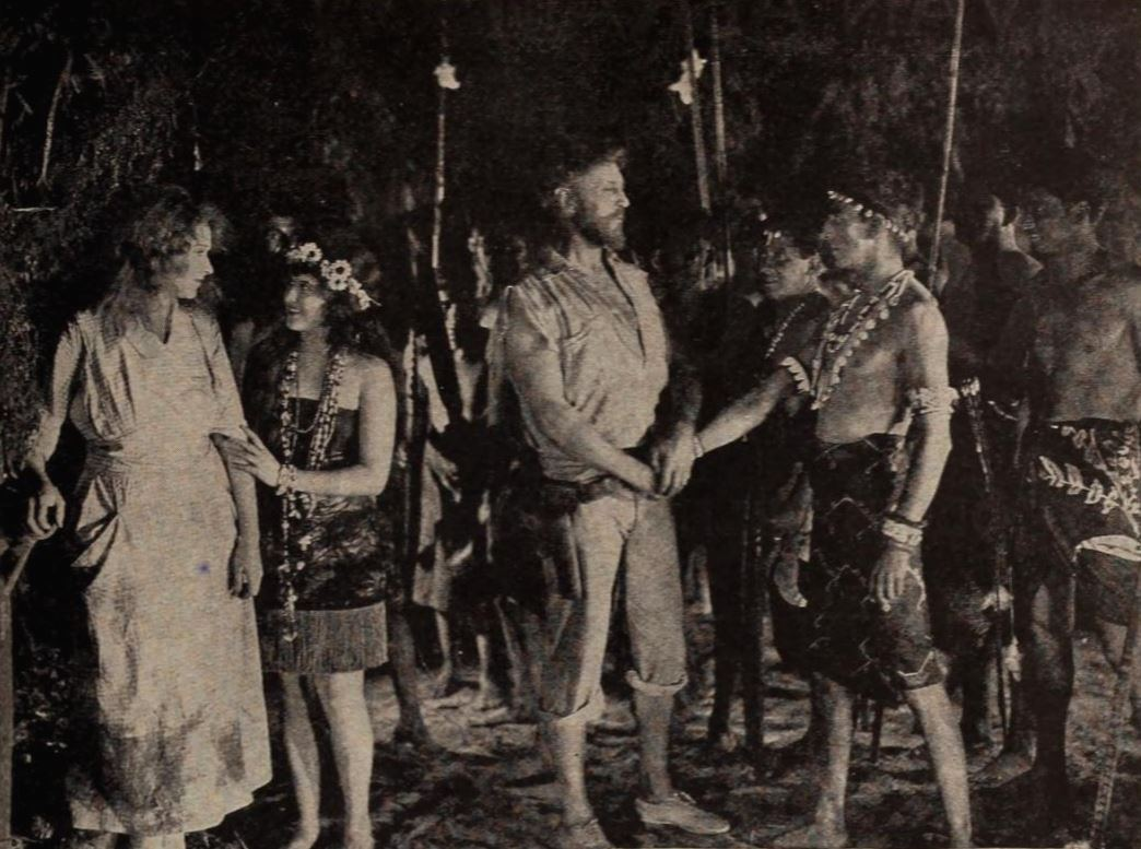 Still from an advertisement for the American drama film The Brute Master (1920) with Anna Q. Nilsson, Margaret Livingston, and Hobart Bosworth, on page 17 of the November 27, 1920 Exhibitors Herald.